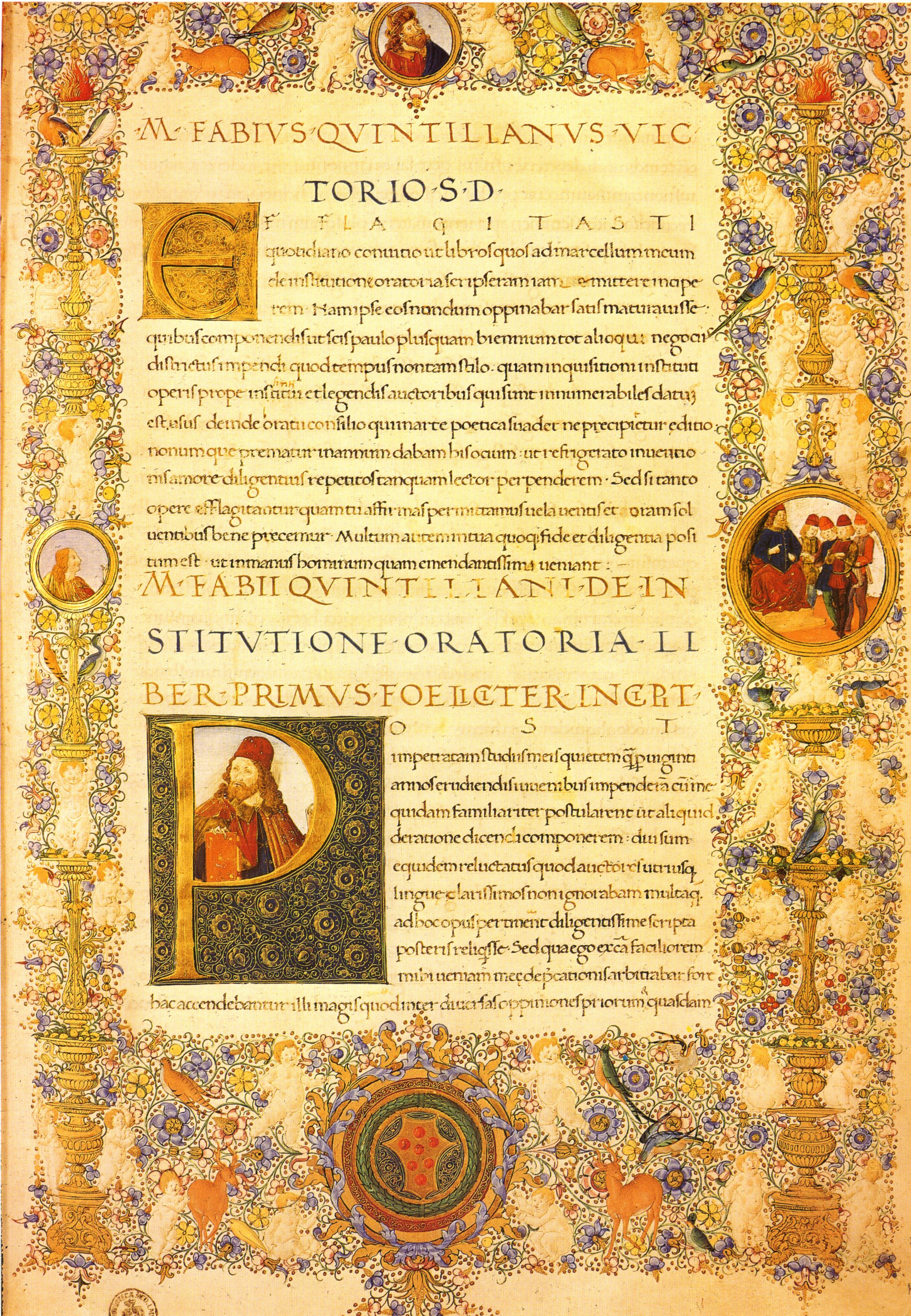 Quintilian, Institutio oratoria in ms. Florence, Biblioteca Medicea Laurenziana, Plut. 46.12, fol. 1r.